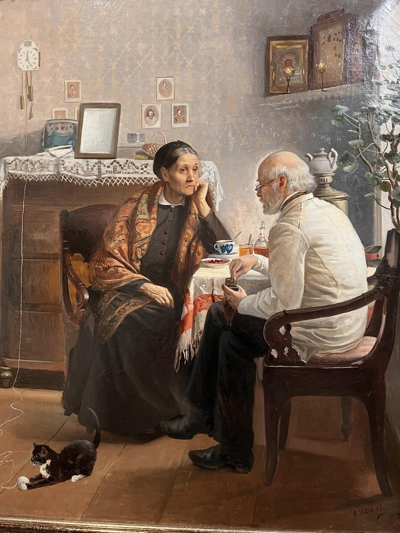 Old friend. Artist Alexey Avvakumovich Naumov (1840-1895)